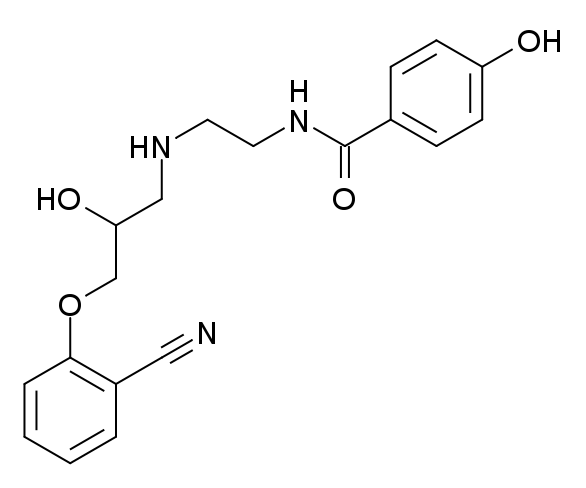 i drew this anyone can use it